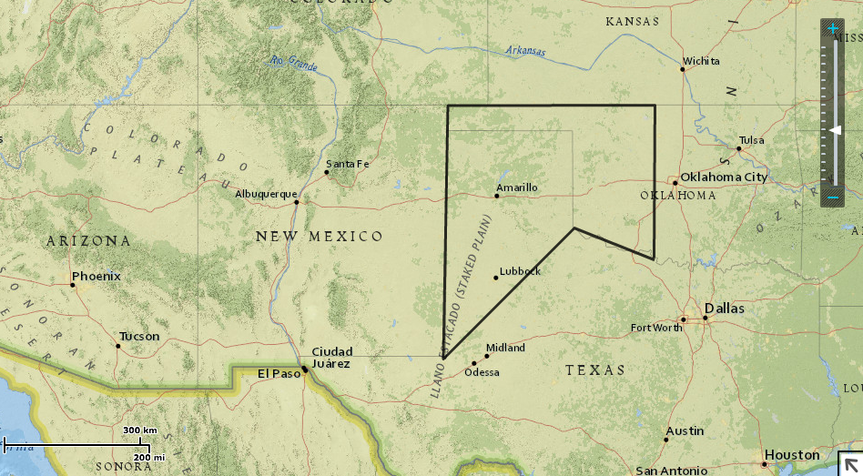 Map of the area set aside for the Comanche, Kiowa, and Kiowa-Apache tribes in the treaty of 1865